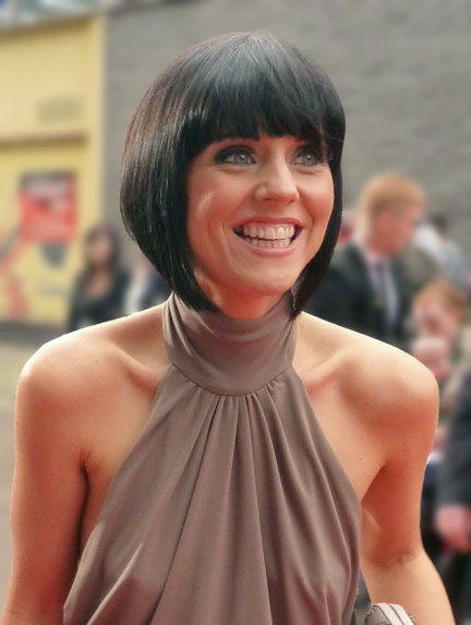 British actress Stephanie Waring.